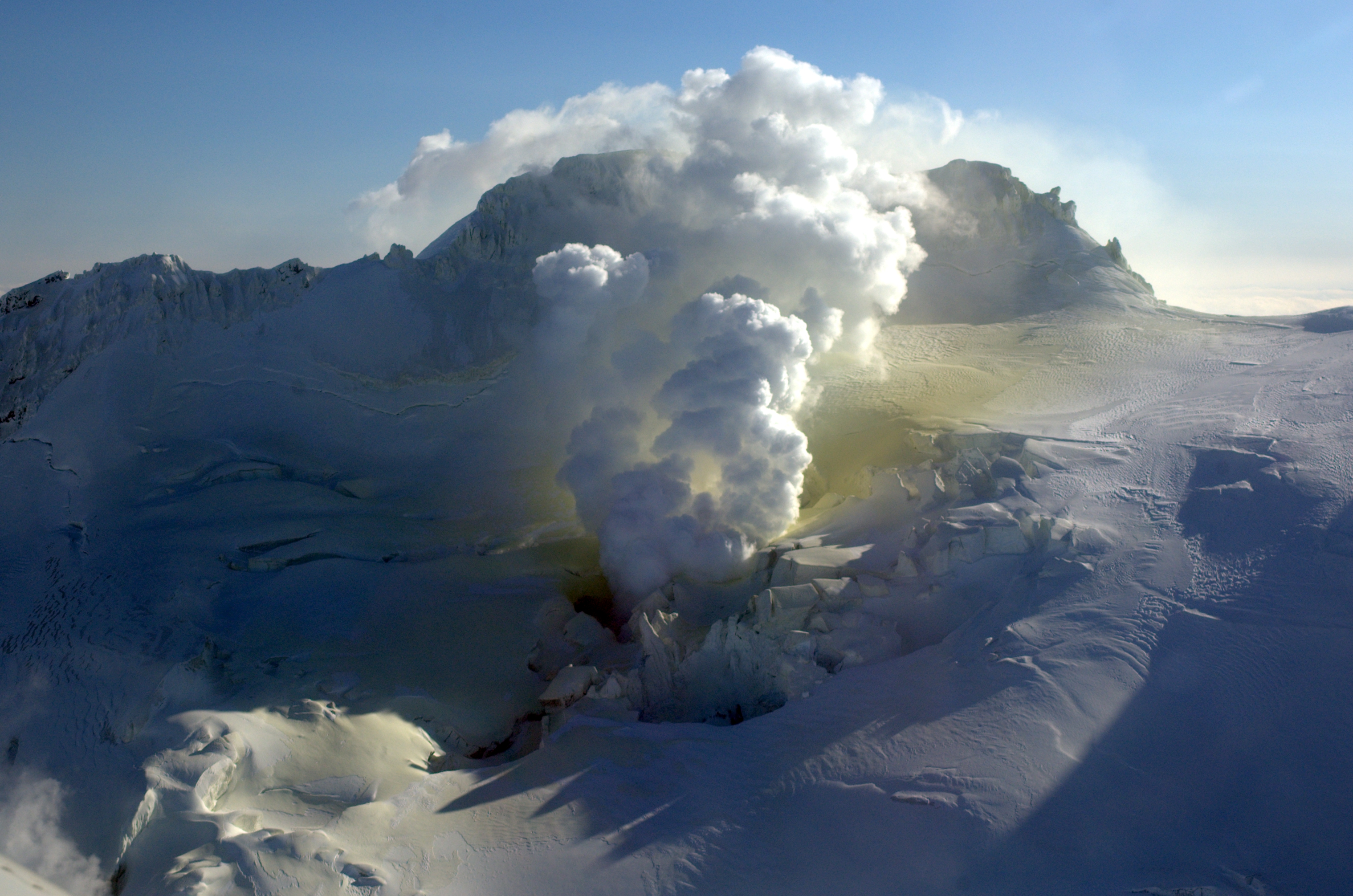 Fumarole on NW side of Fourpeaked. Yellow staining on snow is result of sulfur emission from the vent.